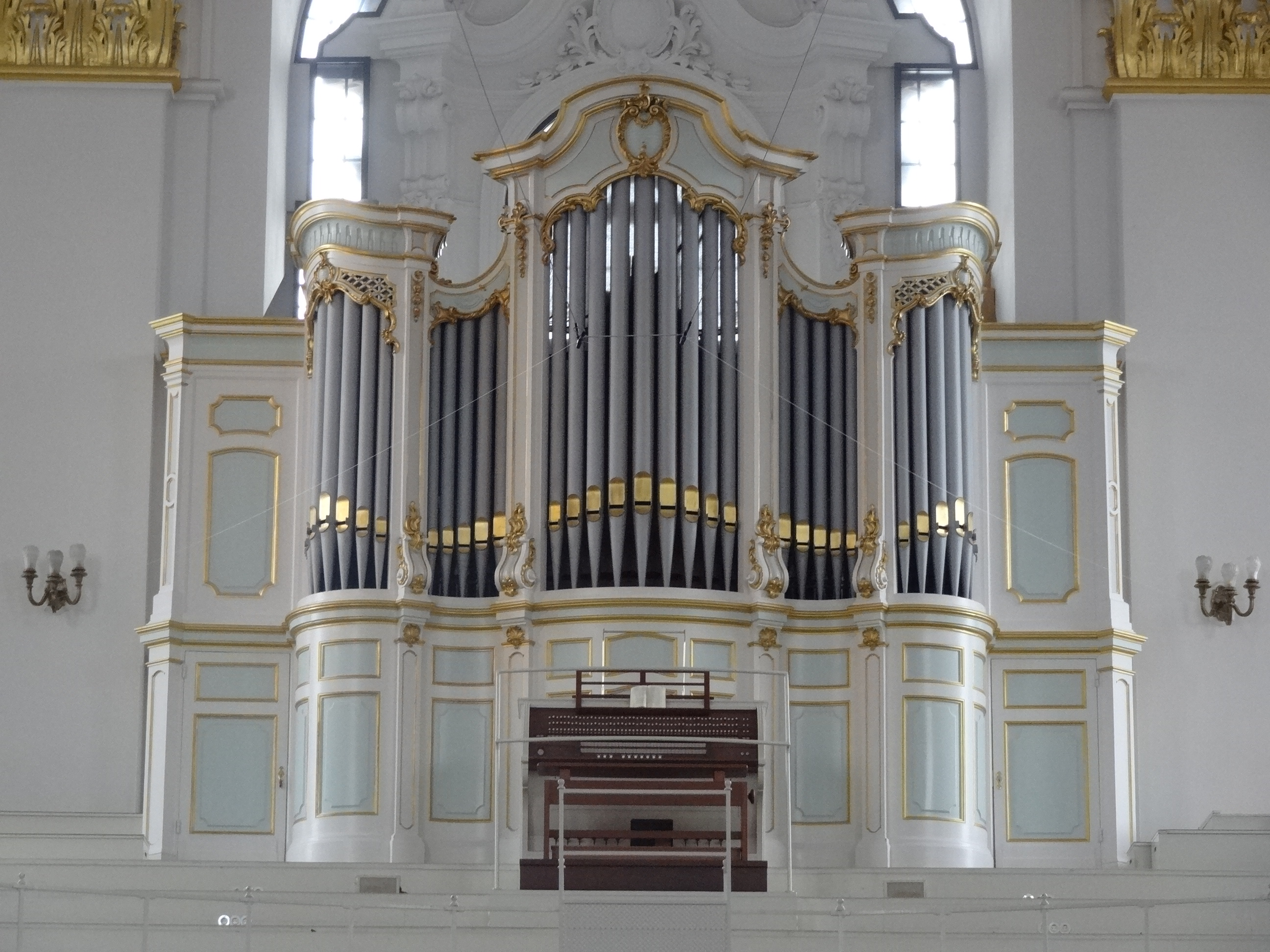 Interior of St.-Michaelis-Kirche (Hamburg)